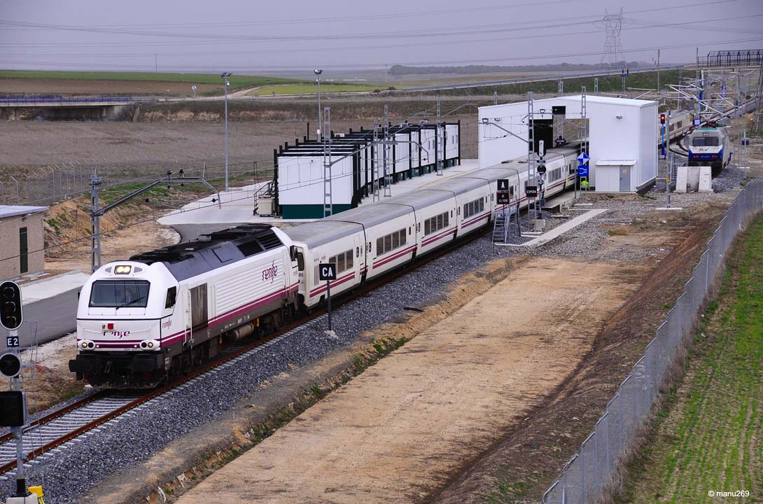 A Talgo train in a gauge changing facility in Medina del Campo, Valladolid, Spain.